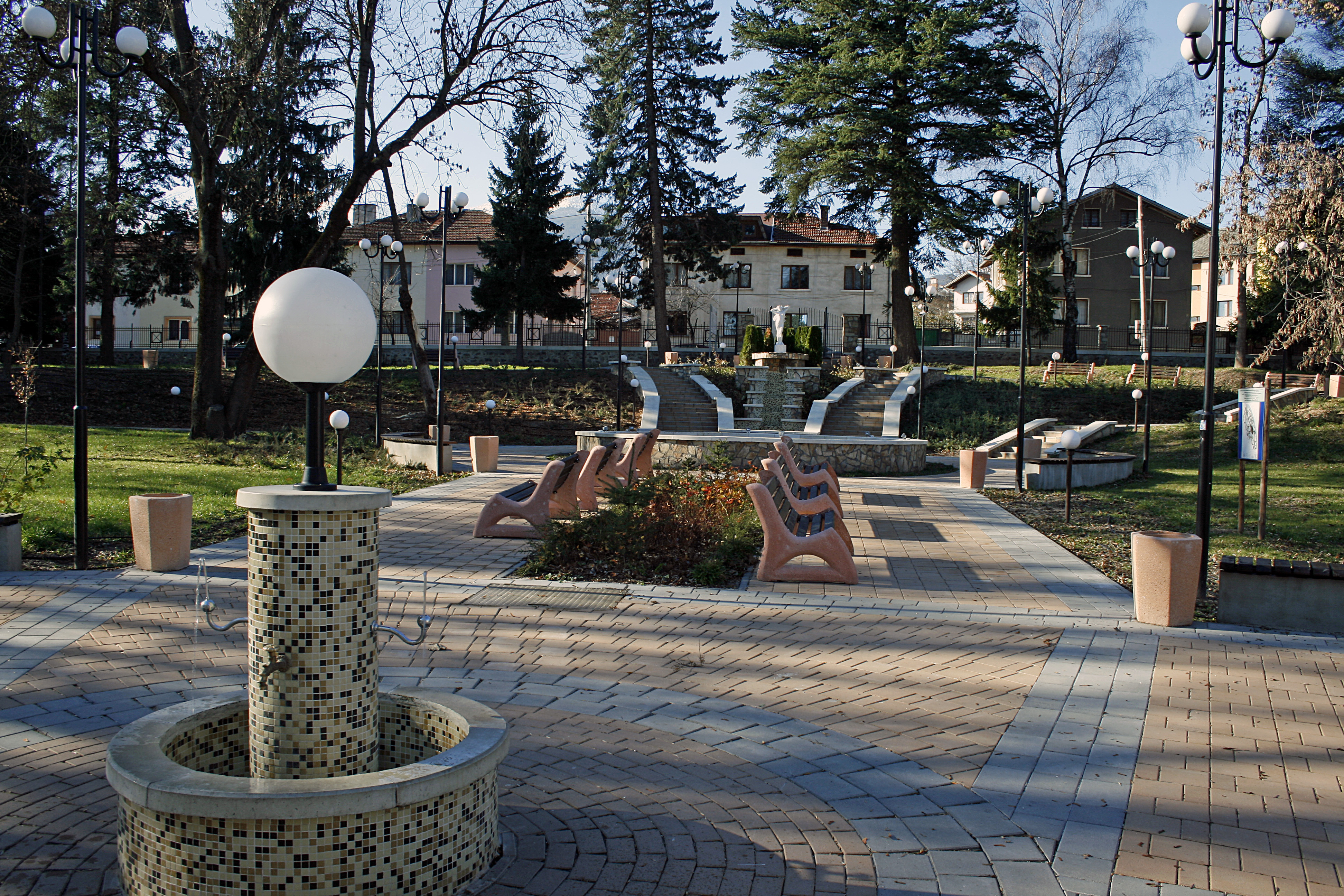 parka